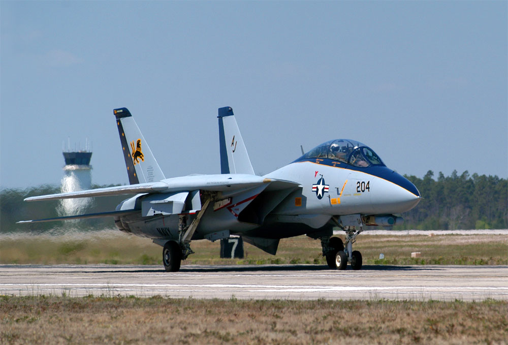 060413-N-5328N-012 Pensacola, Florida. (April 13, 2006) - The last F-14 Tomcat aircraft to fly a combat mission arrives on board Sherman Field at Naval Air Station Pensacola, Fla. The F-14D aircraft bureau number 161159, was assigned to the Black Lions of Fighter Squadron Two One three (VF-213), as part of Carrier Air Wing Eight (CVW-8), embarked aboard USS Theodore Roosevelt (CVN-71). The aircraft will become a display aircraft at the National Museum of Naval Aviation.